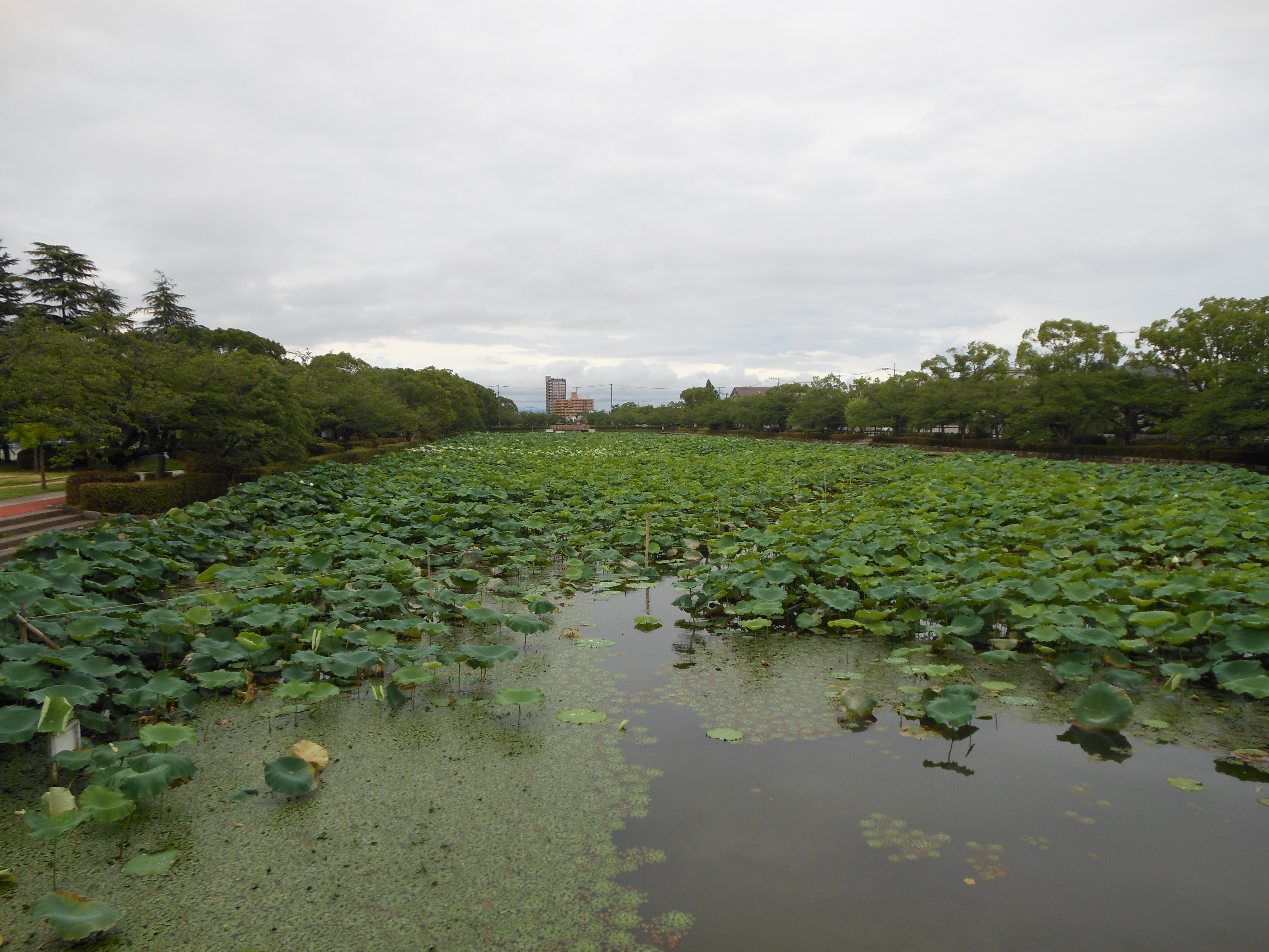 Lotus at south moat of Saga Castle.